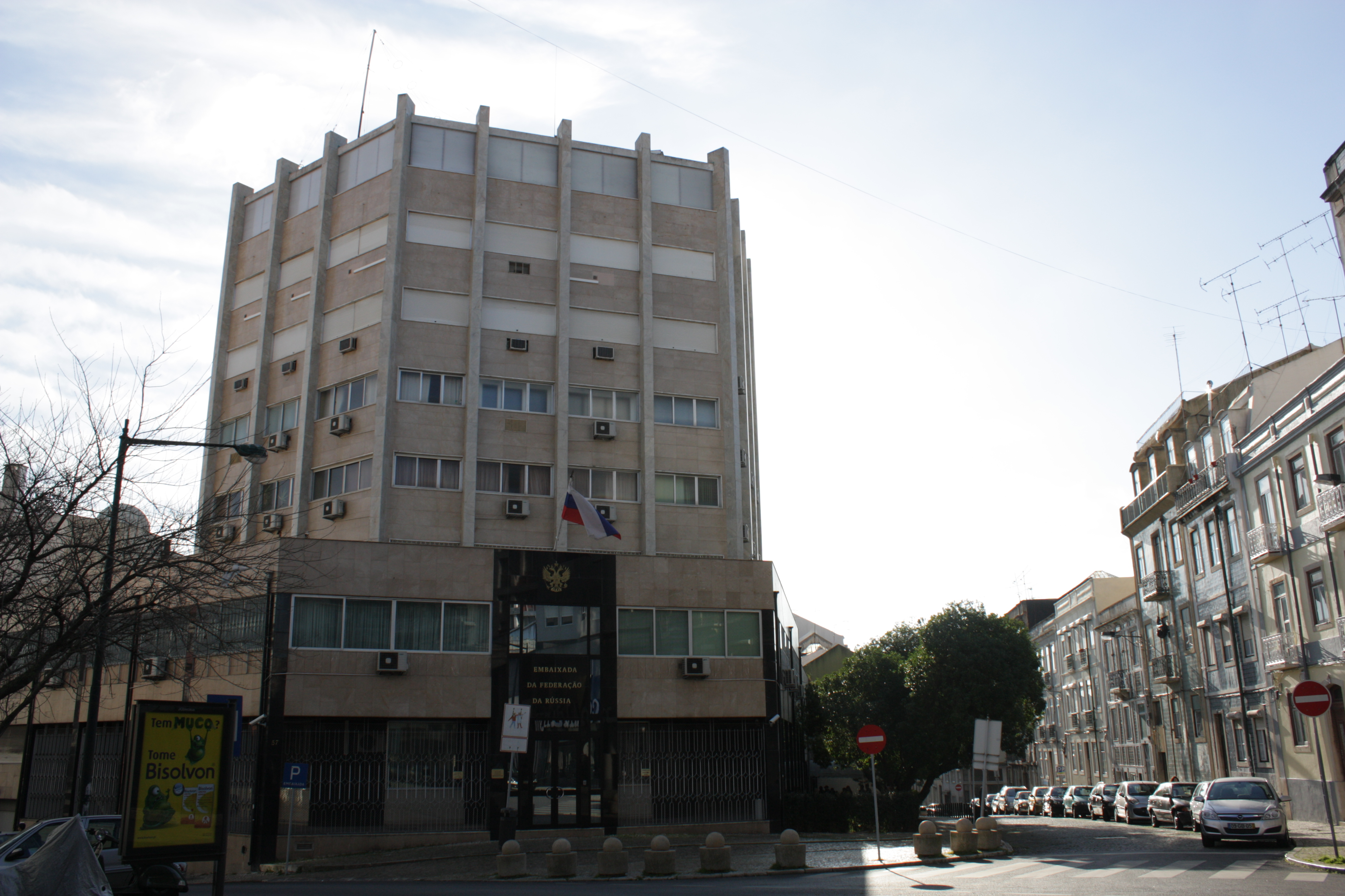 Embassy of Russian Federation in Portugal